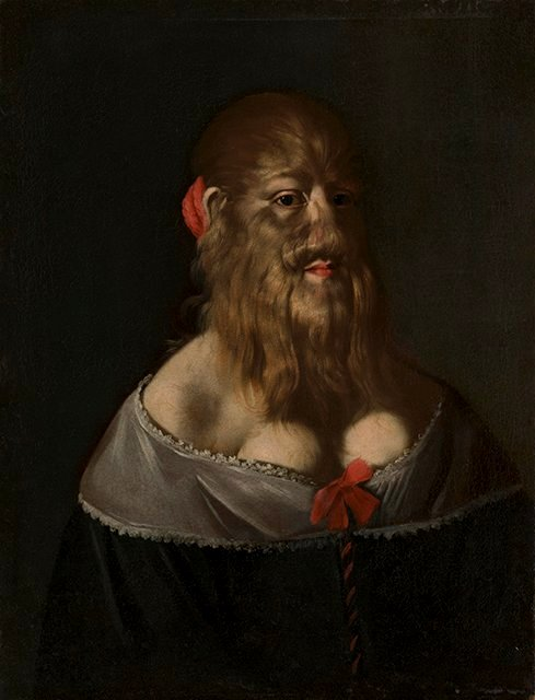 Portrait of Barbara van Beck (1629 – c. 1668)